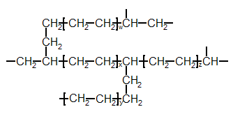 LowDensityPolyethlene03